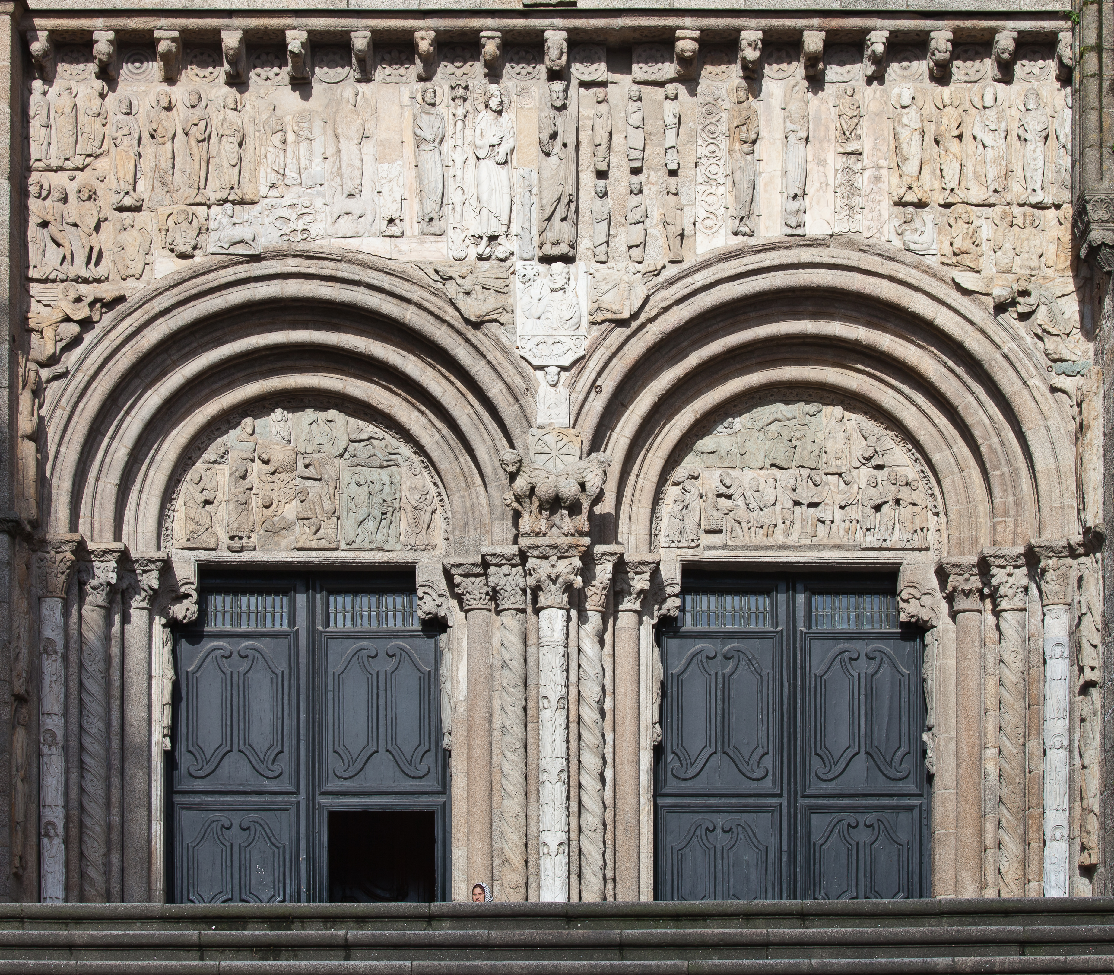 Facade of Praterias, Cathedral of Santiago de Compostela, Galicia (Spain)